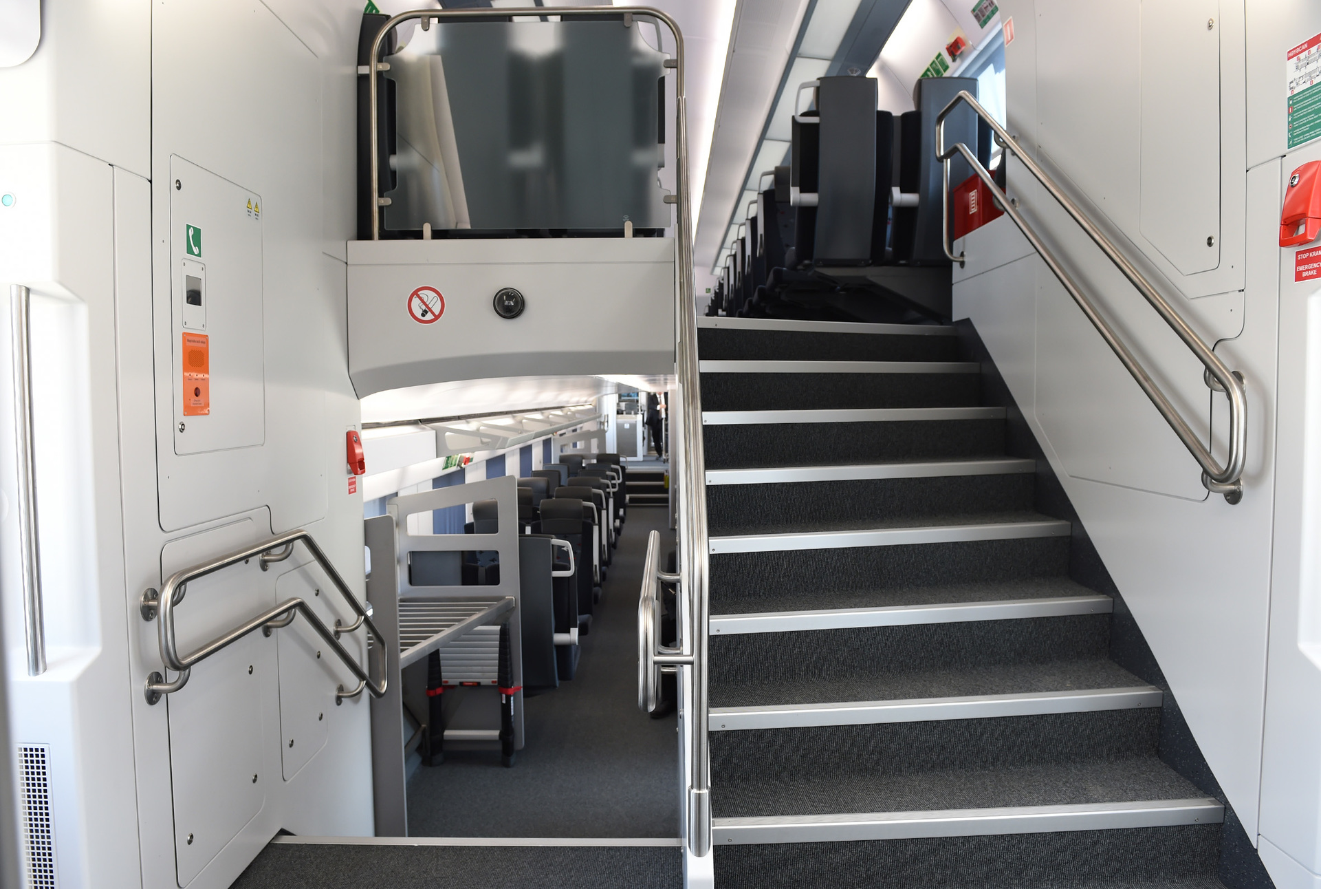 Passenger interior of of electric multiple unit ESh2-003. View from entrance zone to stairs